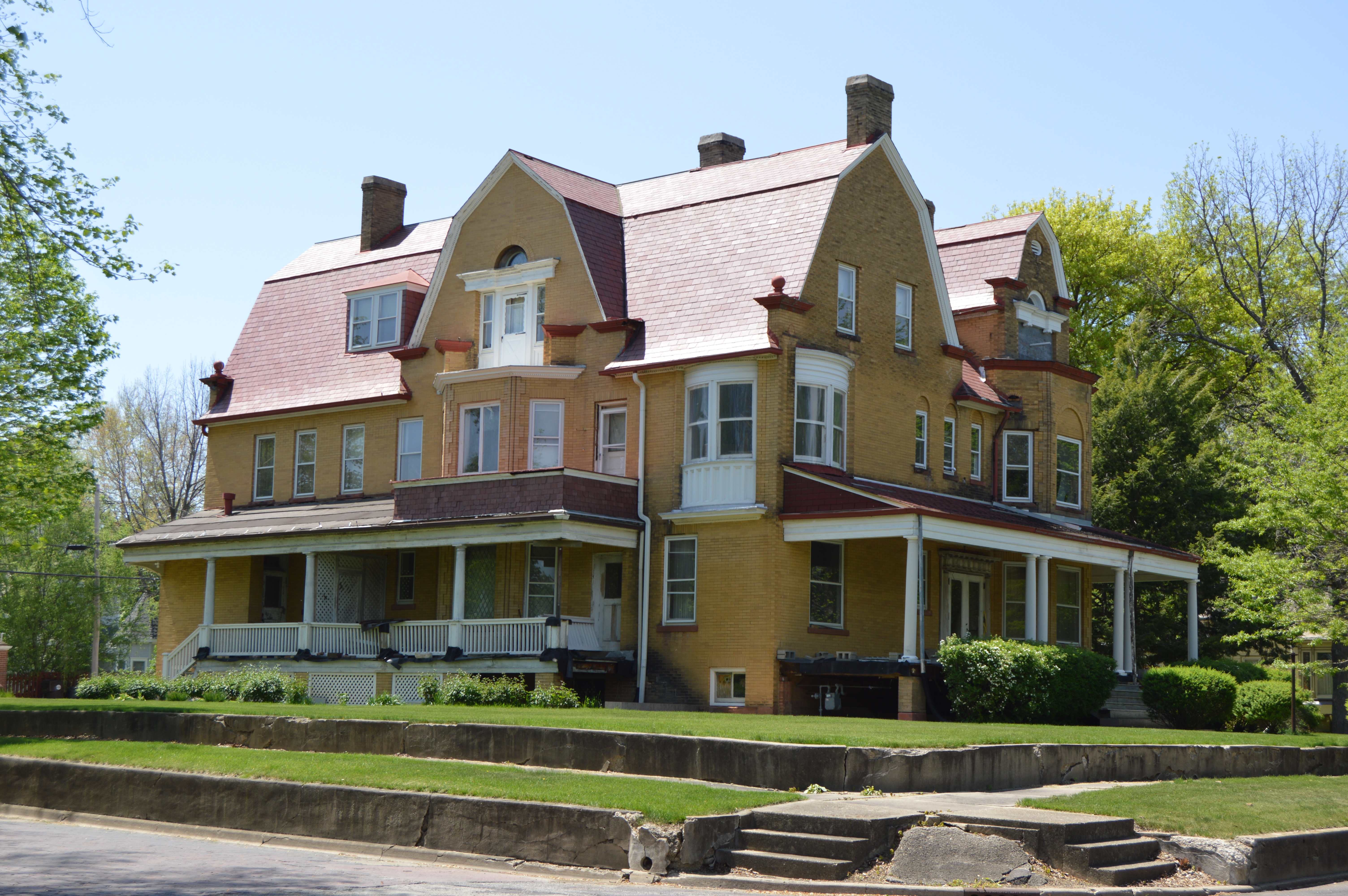 View from the east of the Stephan A. Foley House, located at 427 Tremont Street in Lincoln, Illinois, United States. Built in 1898, it is listed on the National Register of Historic Places.